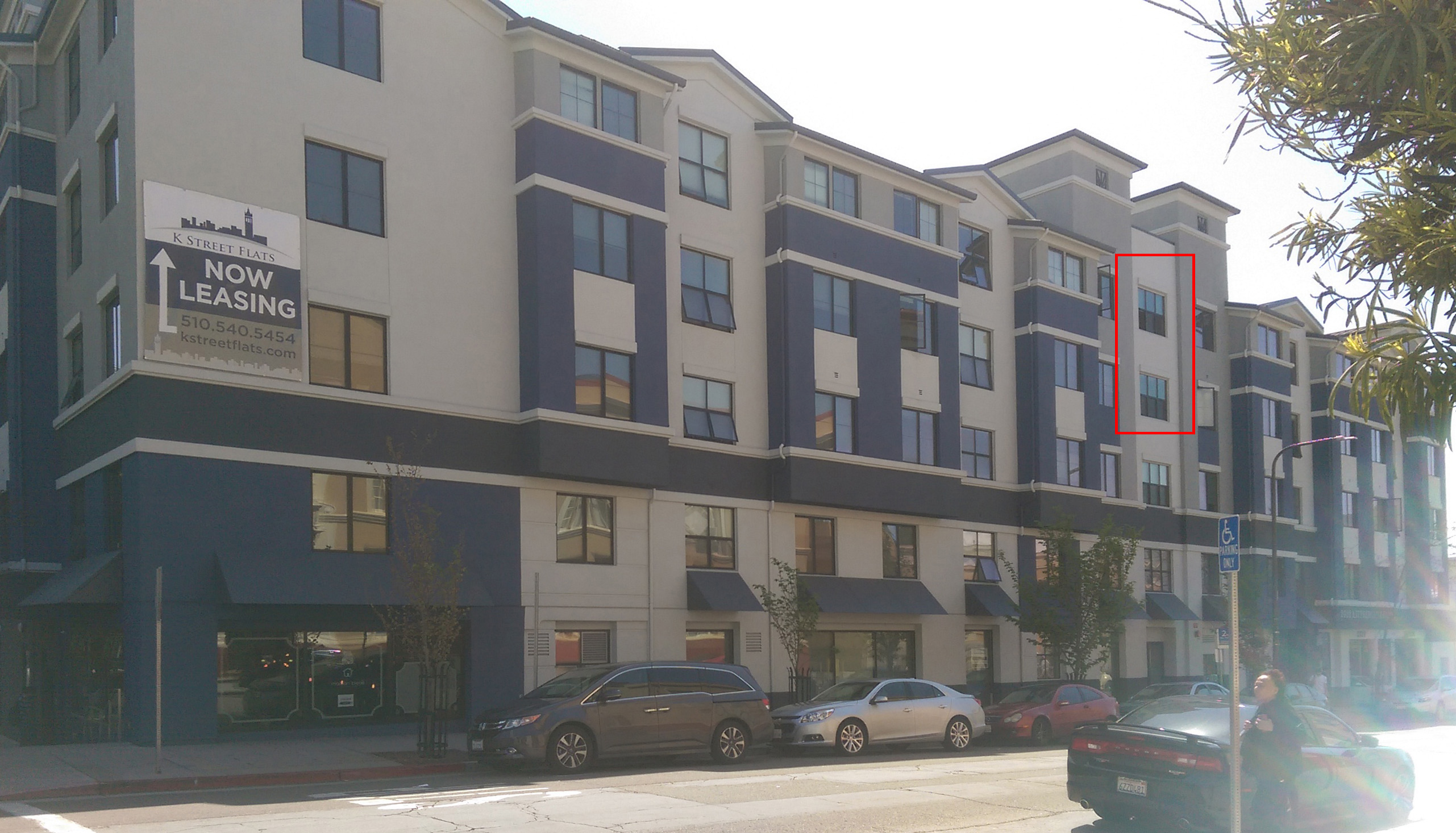 Berkeley, California - 2020 Kittredge St apartments (Library Gardens / K Street Flats) Red box shows former location of balconies that collapsed in 2015